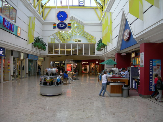 Inside the Pentagon Centre, Chatham A typical town centre shopping mall.